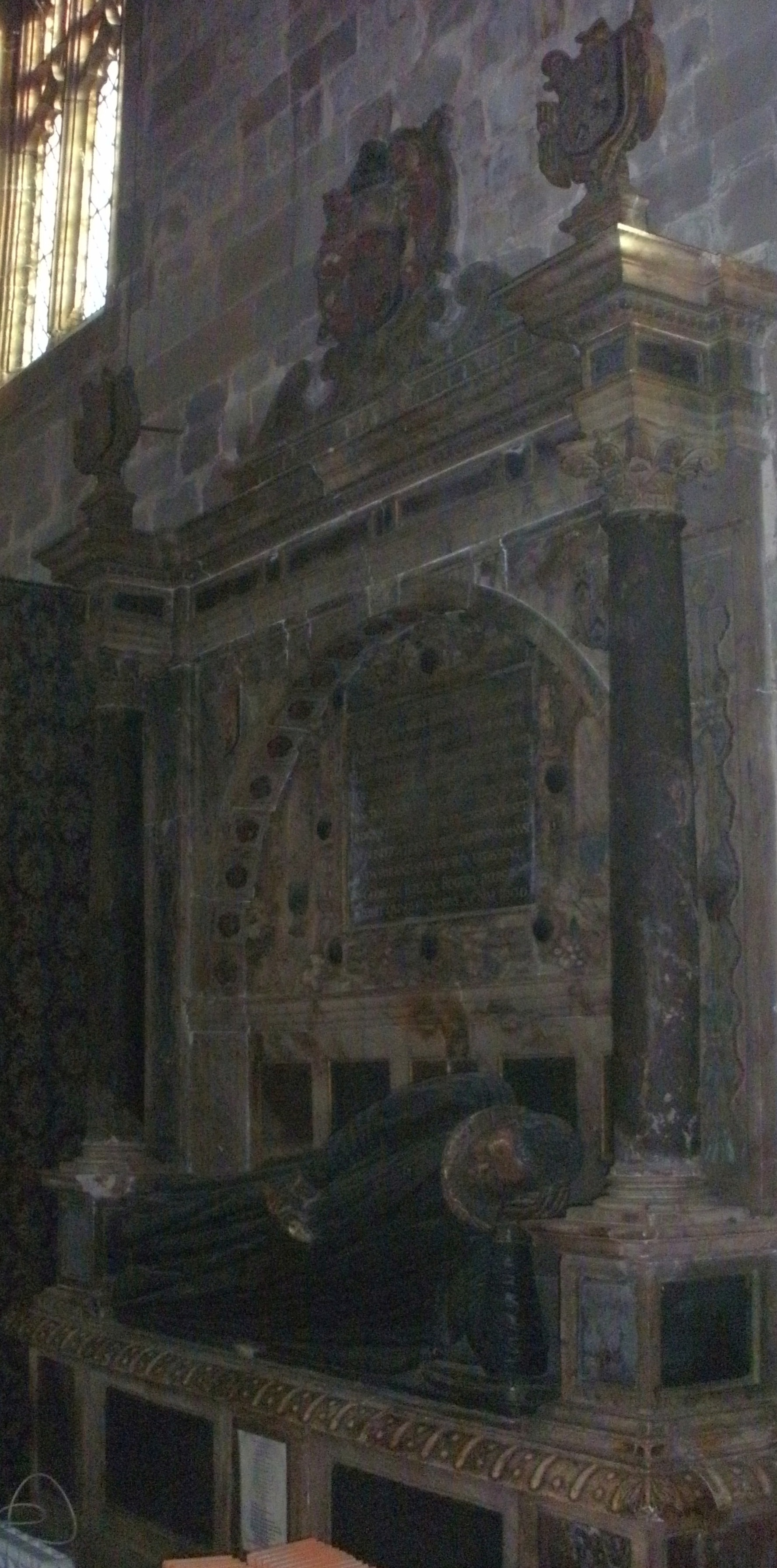 St John the Baptist Church, Bromsgrove, Worcestershire - monument to George Lyttelton (looking east). George Lyttelton (1528–1600), of Frankley, Worcestershire, was a prominent lawyer. He was the son of John Lyttelton/Littleton (died 1533) and his wife Elizabeth (née Talbot, died 1581), a daughter of Sir Gilbert Talbot, of Grafton Manor, Worcestershire (died 1542) and Anne Paston.